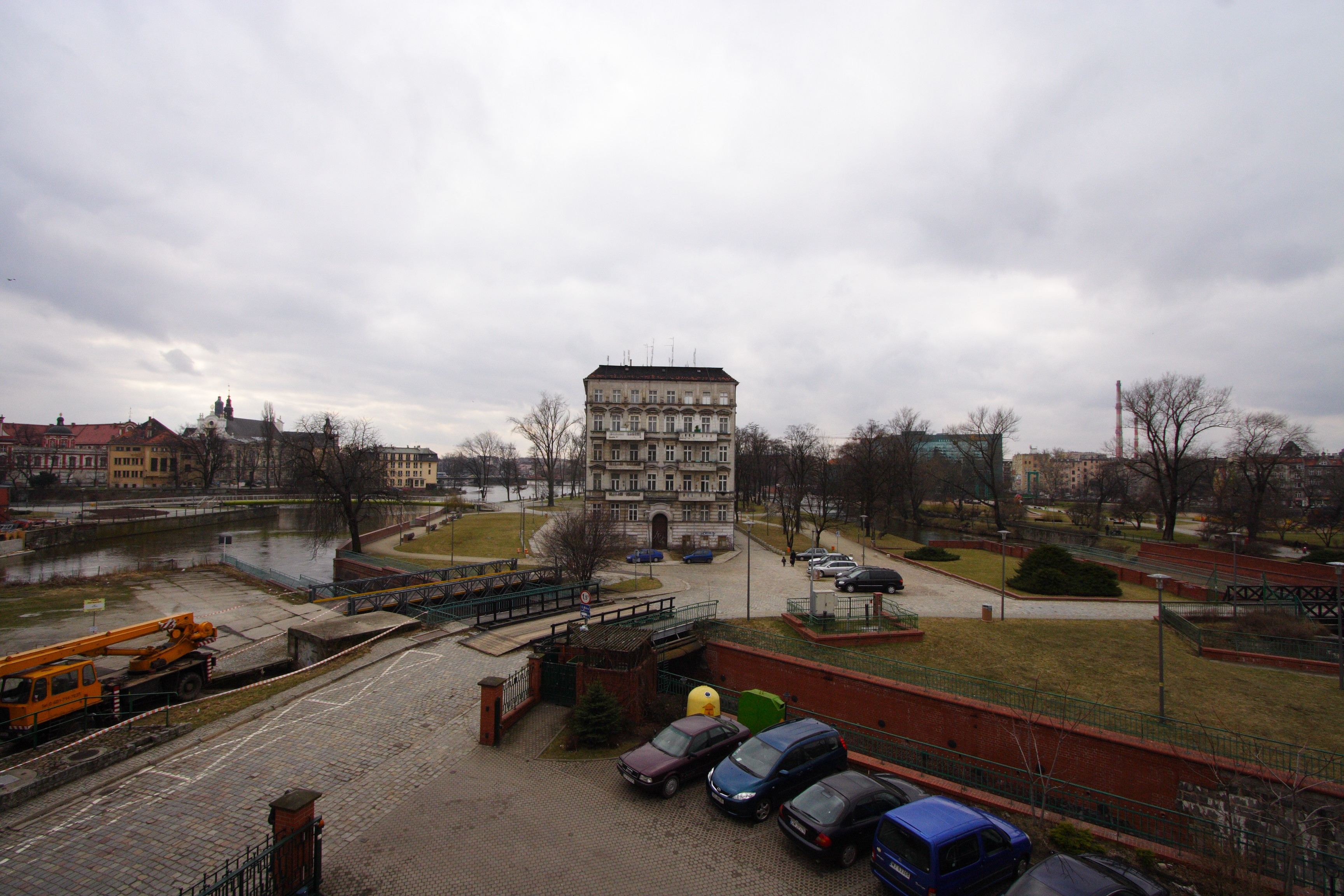 Wroclaw during WikiConference Poland'11